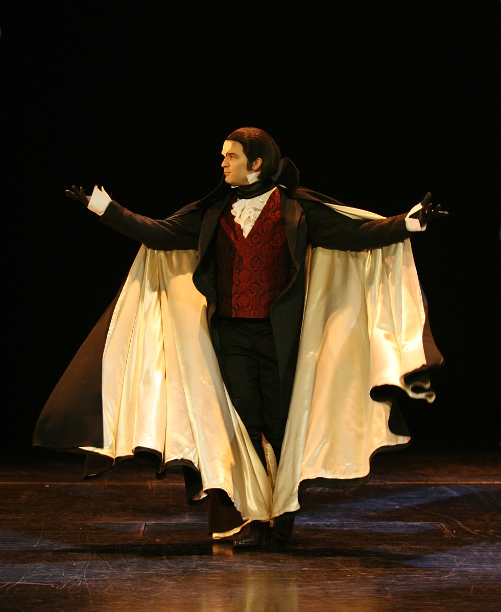 Damian Aleksander as Phantom in the musical "The Phantom of the Opera" in Roma Musical Theatre in Warsaw, 03.12.2008.